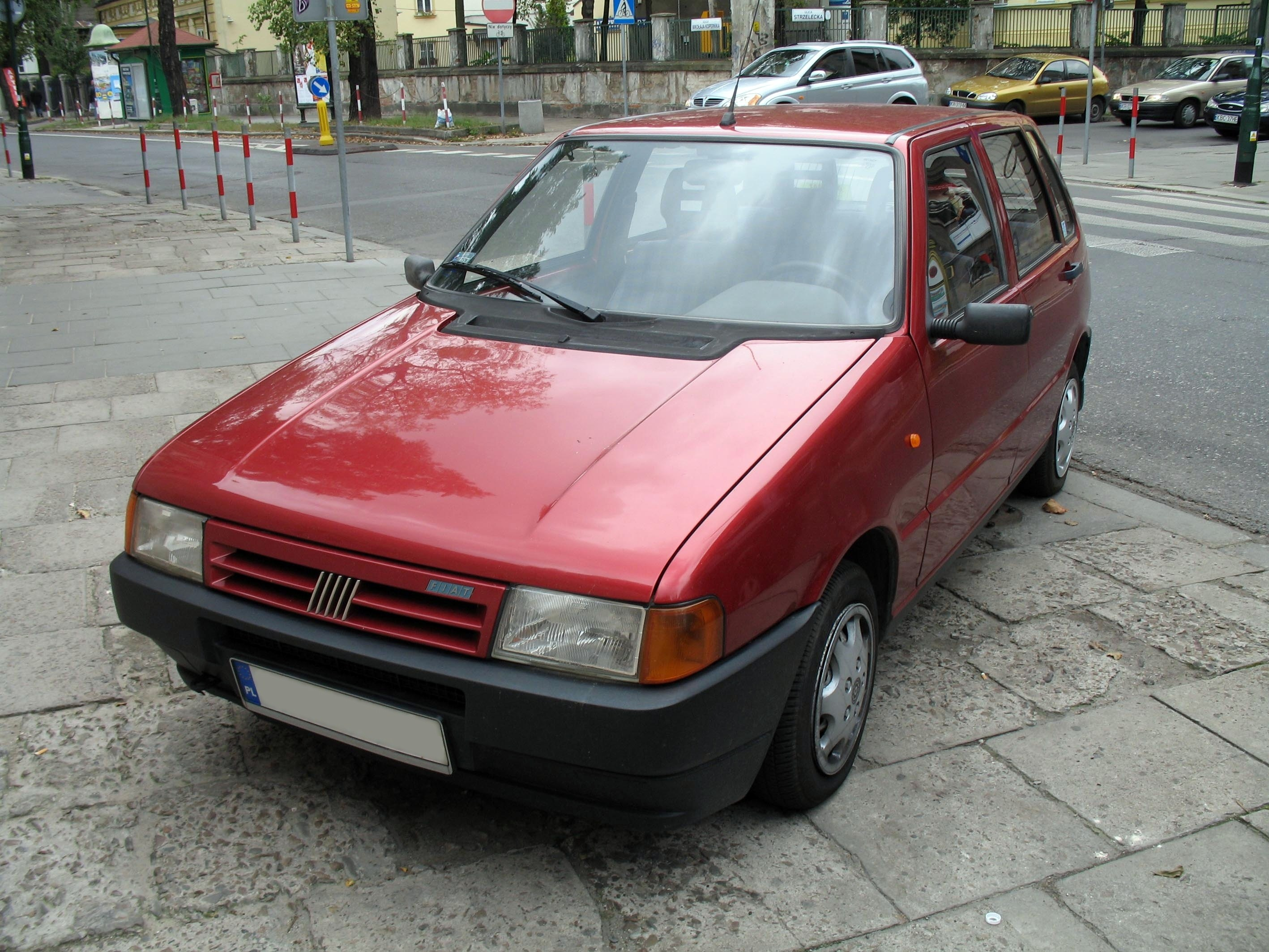 Fiat Uno II automobile in Kraków, Poland.